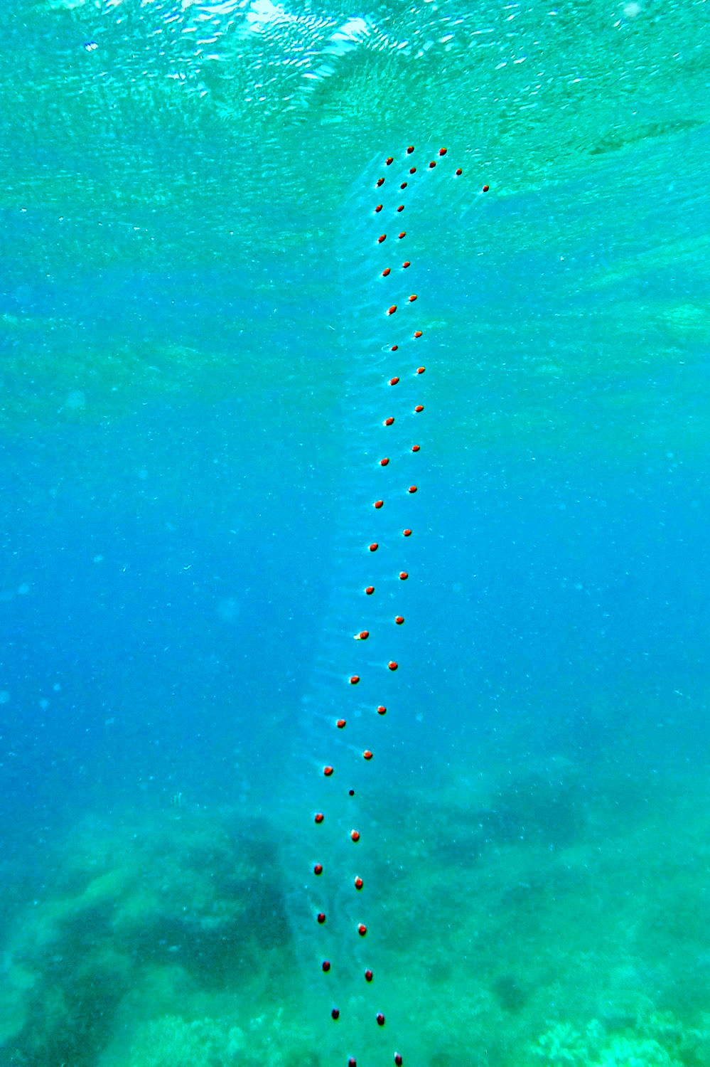 A sea-salp chain spotted while snorkeling off the coast of Zanzibar, in Tanzania